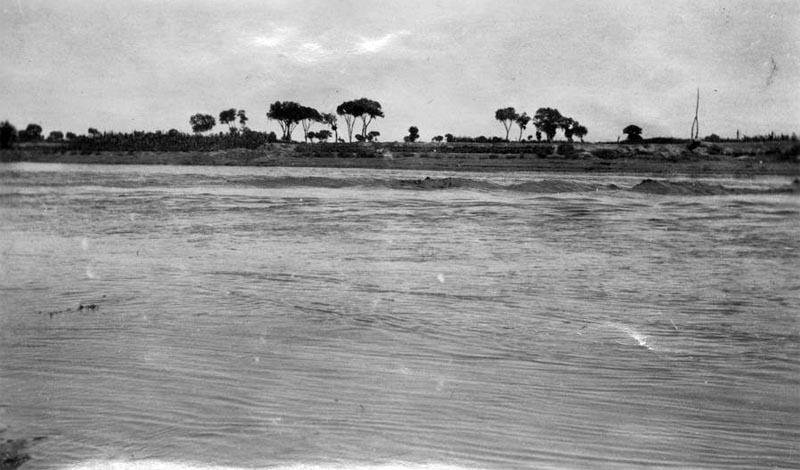 The photo was taken in 1924, and the copyright has expired according to the law of the People's Republic of China, and is in the public domain.